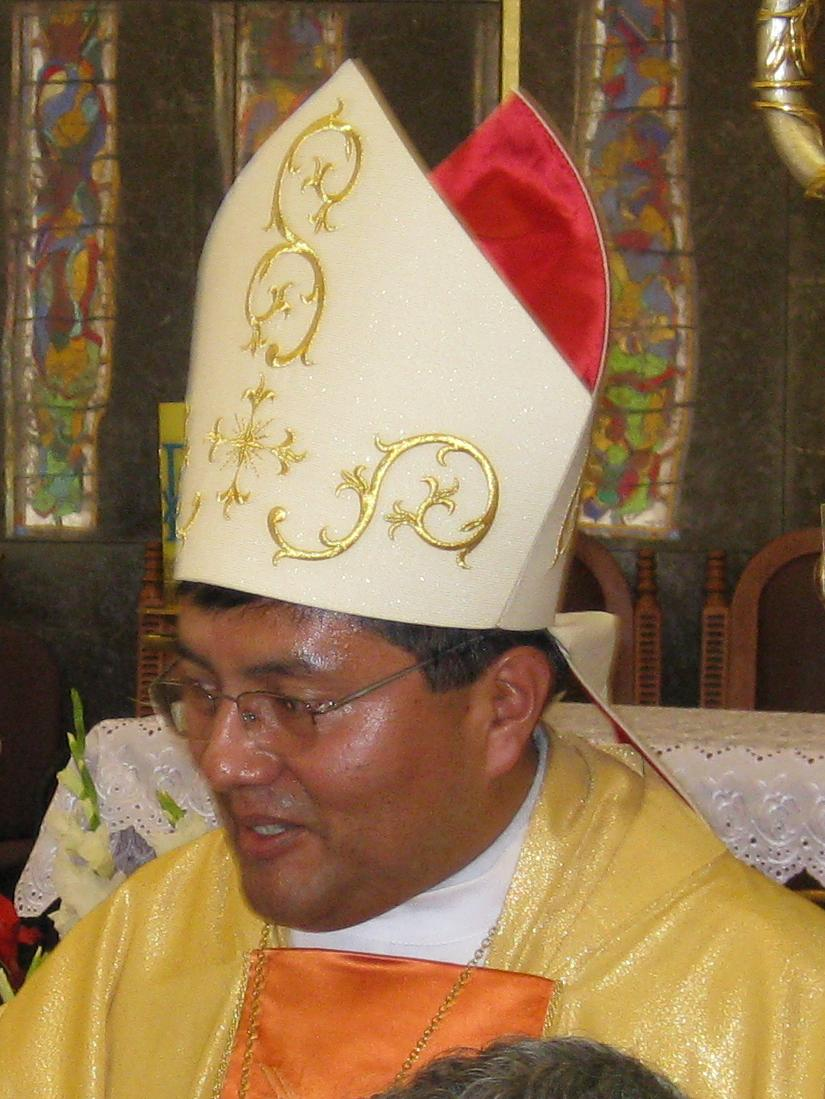 Jorge Herbas Balderrama